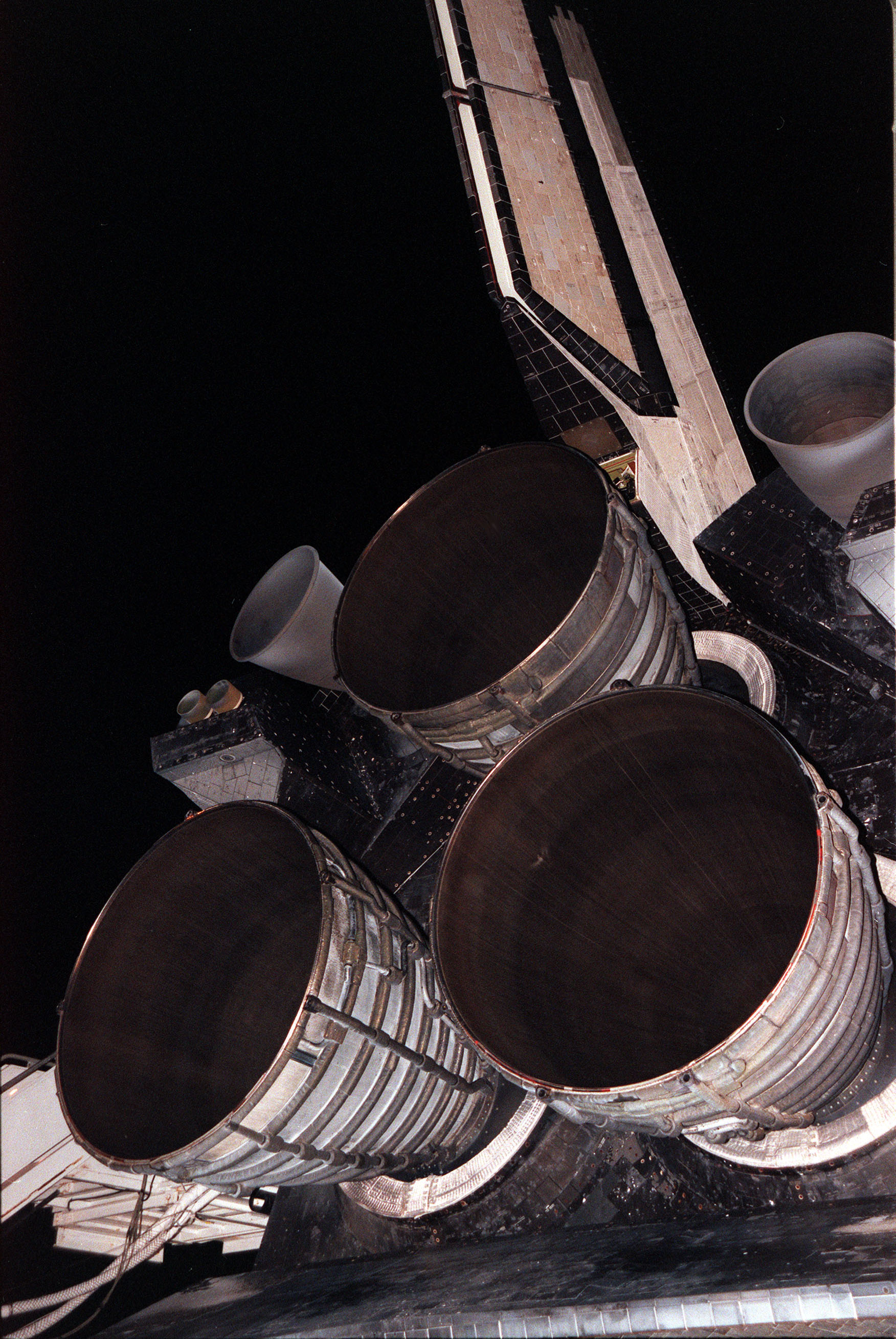 A view of Space Shuttle Columbia's vertical stabiliser, OMS engines and Space Shuttle Main Engines (SSMEs) following the landing of STS-93 on 27 July 1999. Three small holes in the liquid hydrogen tubes inside the nozzle on main engine number 3 are visible, the cause of a hydrogen leak during the mission's launch on 23 July 1999.